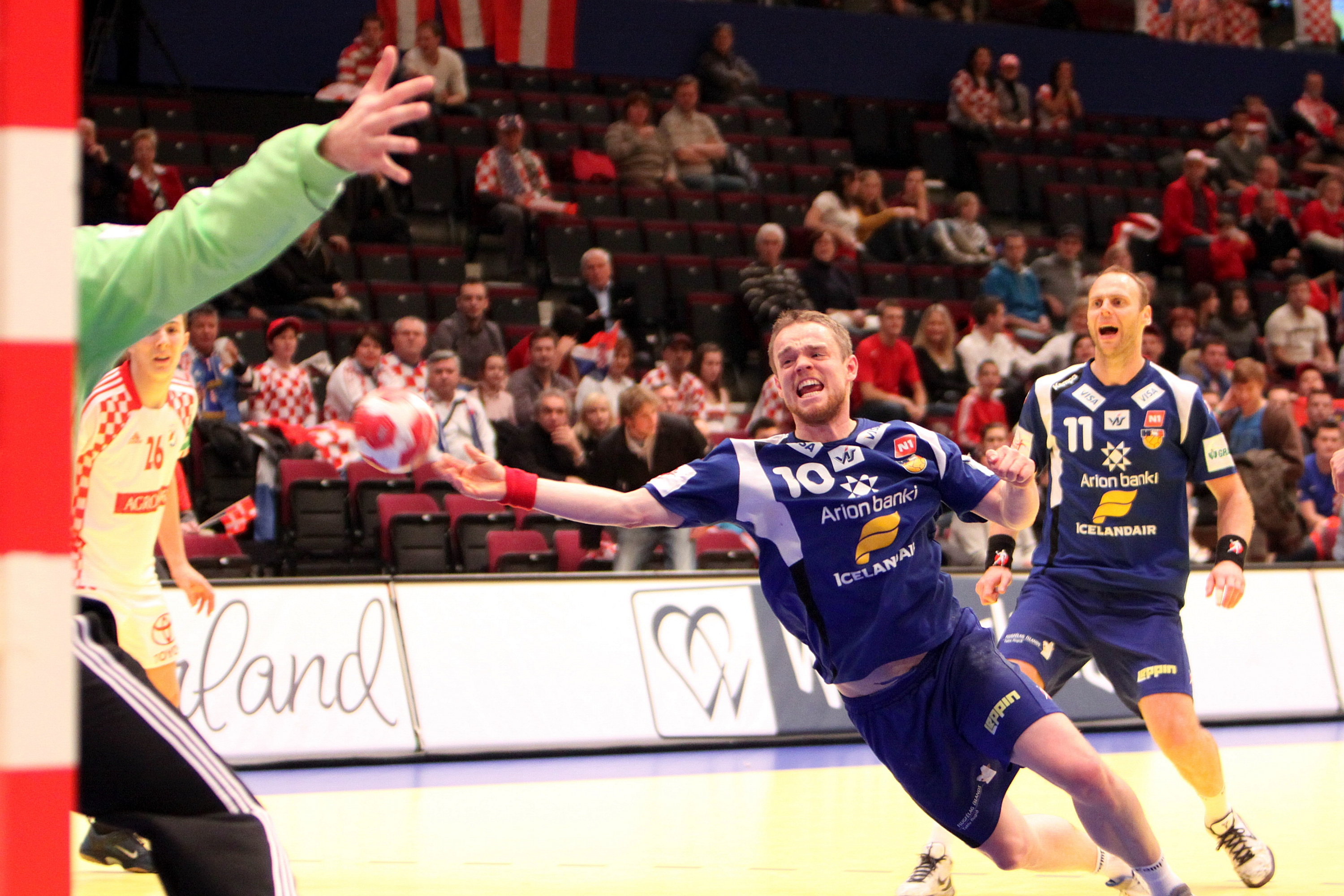 2010 European Men's Handball Championship Group I: Croatia vs Iceland 26:26 — Snorri Guðjónsson (Iceland national handball team) scores, Ólafur Stefánsson in the background